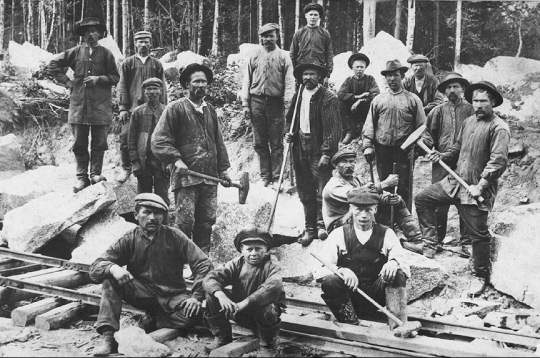 Jyväskylä-Pieksämäki railway under construction near Palvajärvi, Jyväskylän maalaiskunta in 1918